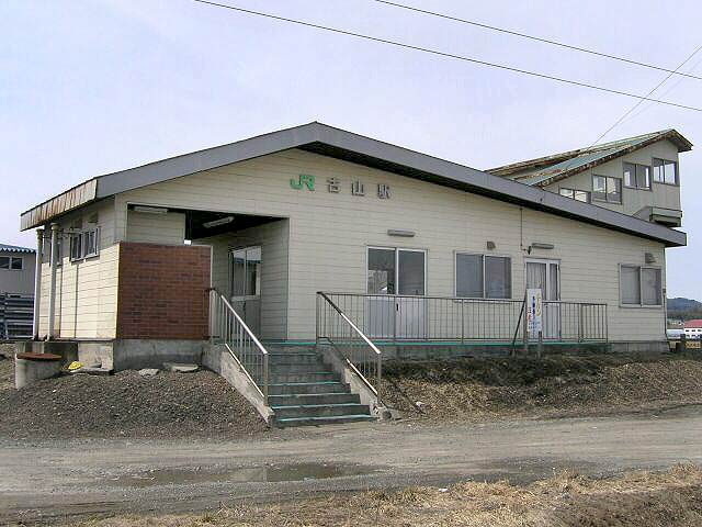 Furusan Station in Muroran Main Line, Japan